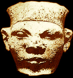 1st Dynastic King of Egypt, perhaps Narmer.